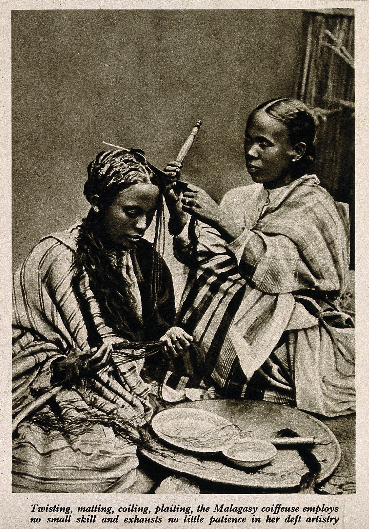 A Malagasy female hairdresser dressing the hair of a woman. Reproduction of a photograph. Iconographic Collections